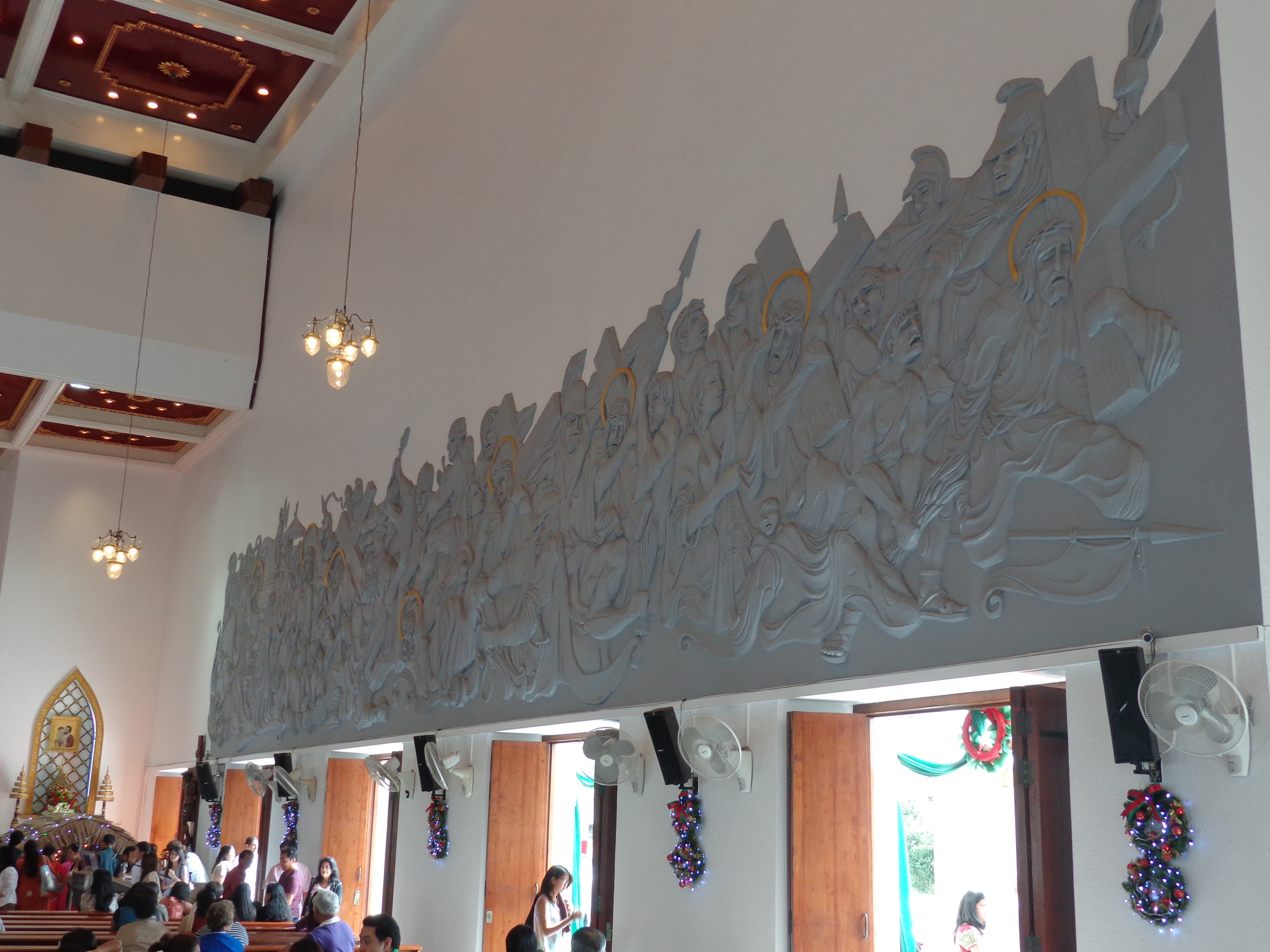 A frieze of the Stations of the Cross inside the Holy Redeemer Catholic Church in Bangkok, Thailand